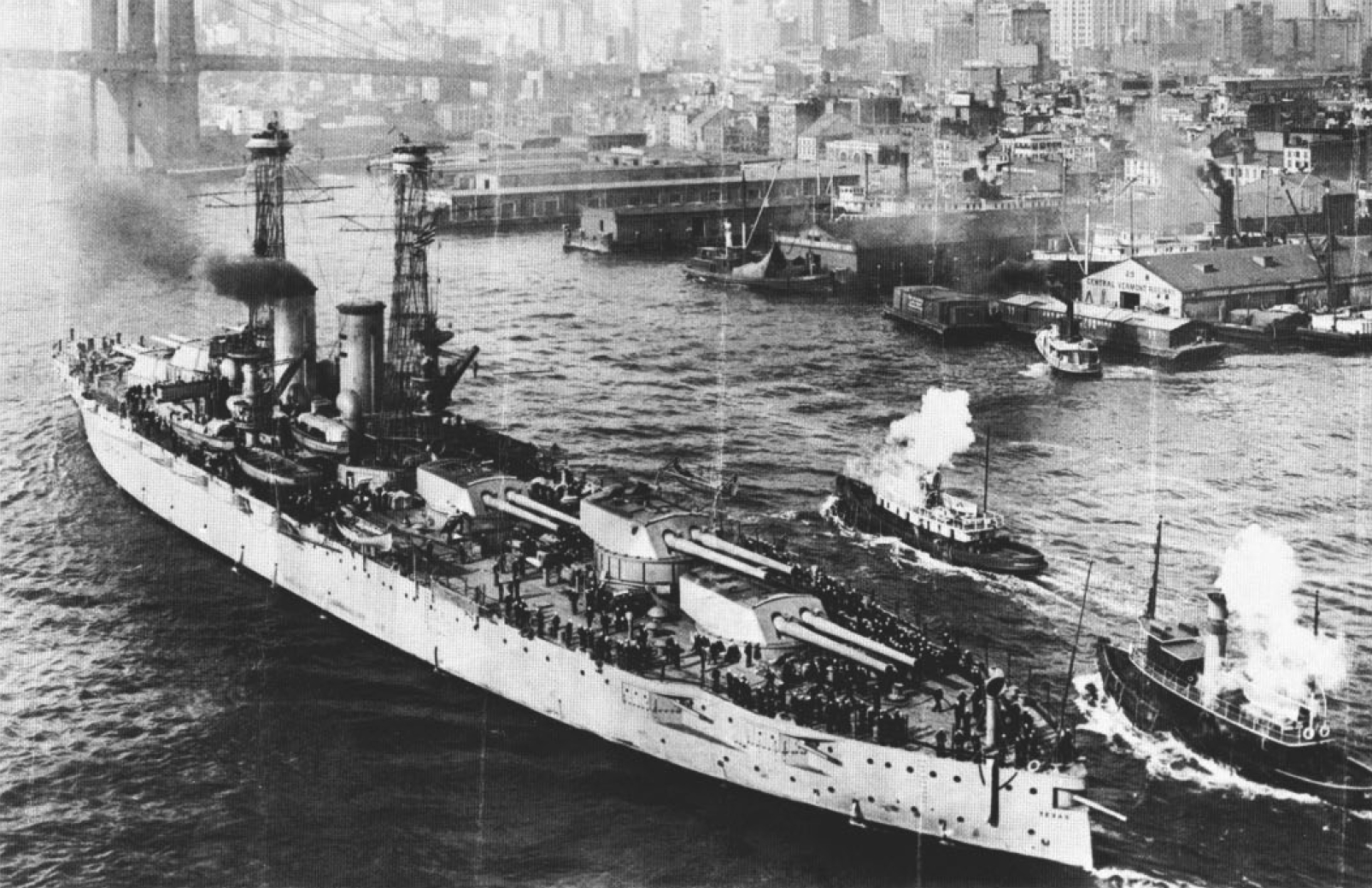 A U.S. Navy battleship USS Texas (BB-35) at New York City (USA), circa 1916.